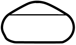 Track map of the speedway at Kentucky Speedway.